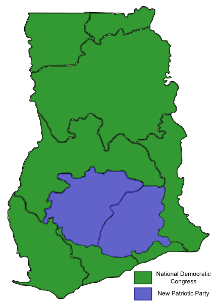 Map, showing the results of the Ghanaian General Election, 2012 by Regions of Ghana. Attribution for the Borderlands of Ghana map: Thfc. Creation & Work